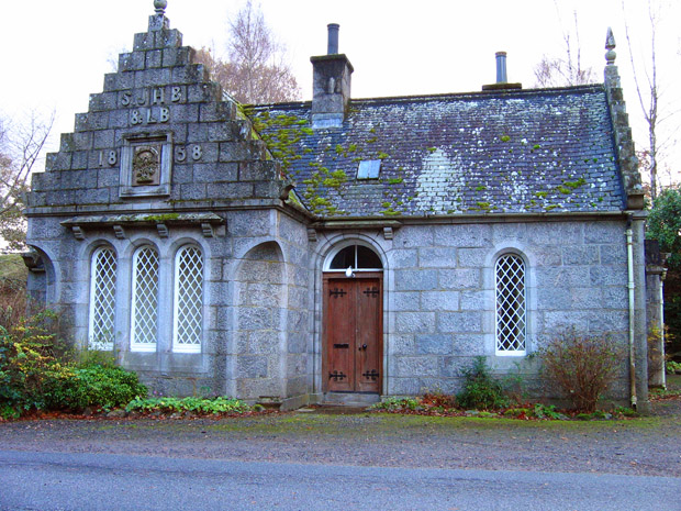 Lodge at main gate to Crathes Castle